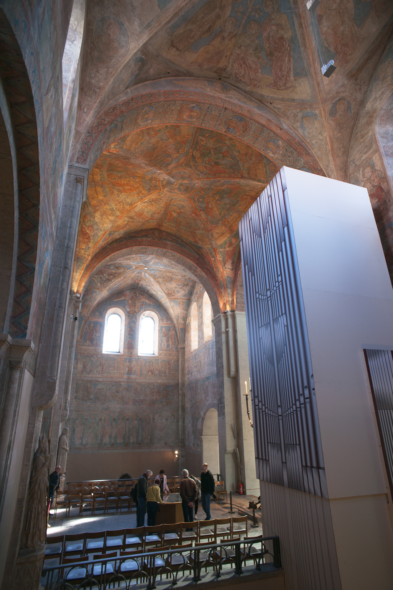 Brunswick Cathedral, Crossing with a dummy of a new organ covering some of the medevial paintings.